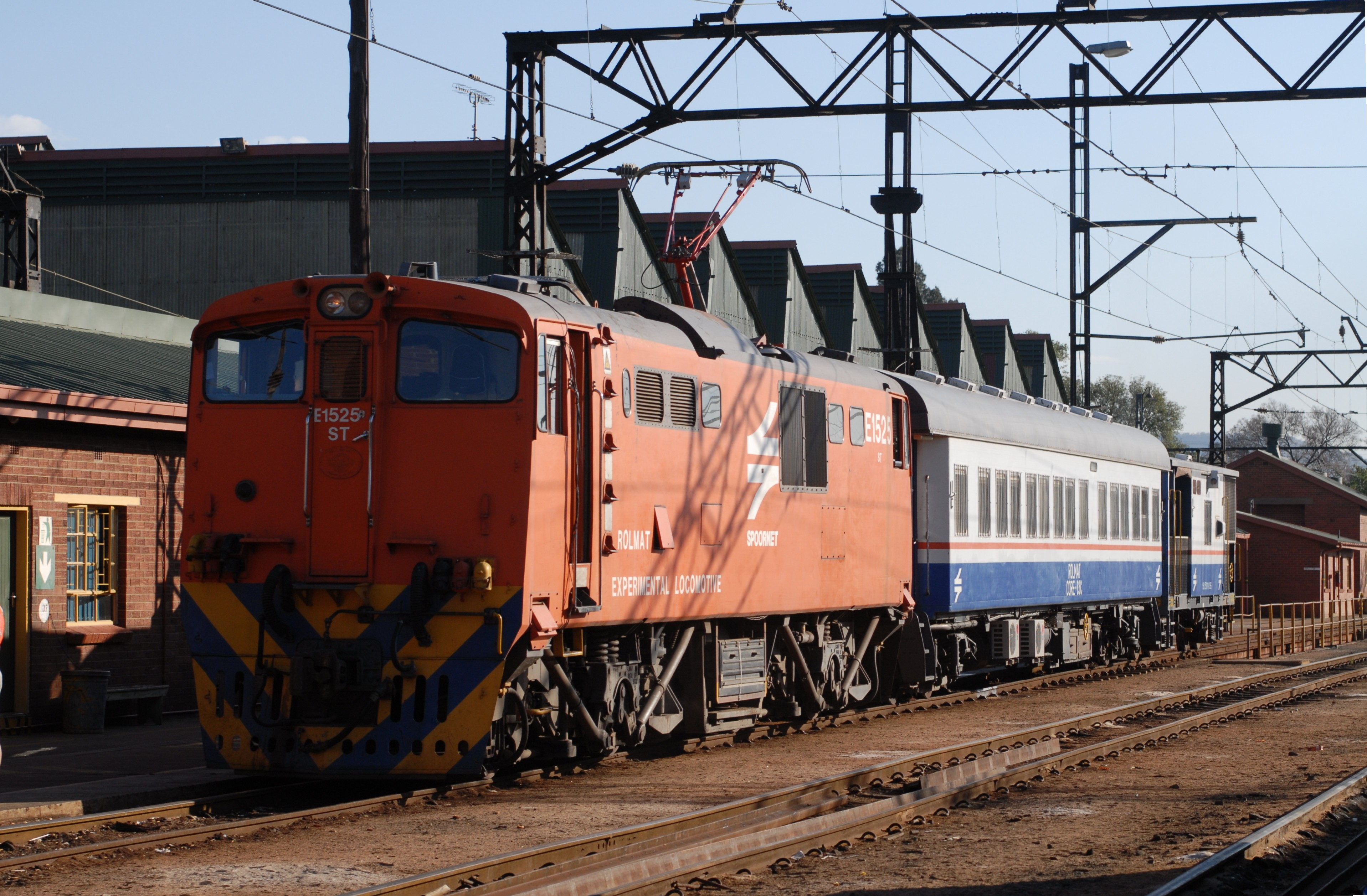 SAR Class 6E1 Series 4 E1525Location: Danskraal, Ladysmith, KwaZulu-NatalWorld Speed Record: In 1978 E1525 was modified for experiments in high speed traction by re-gearing the traction motors and installing SAR designed Scheffel bogies and a streamlined nose cone. In this configuration E1525 reached a speed of 245 kilometres per hour (152 miles per hour) on 31 October 1978, a still unbeaten world record on 3 feet 6 inches (1,067 millimetres) Cape gauge track.